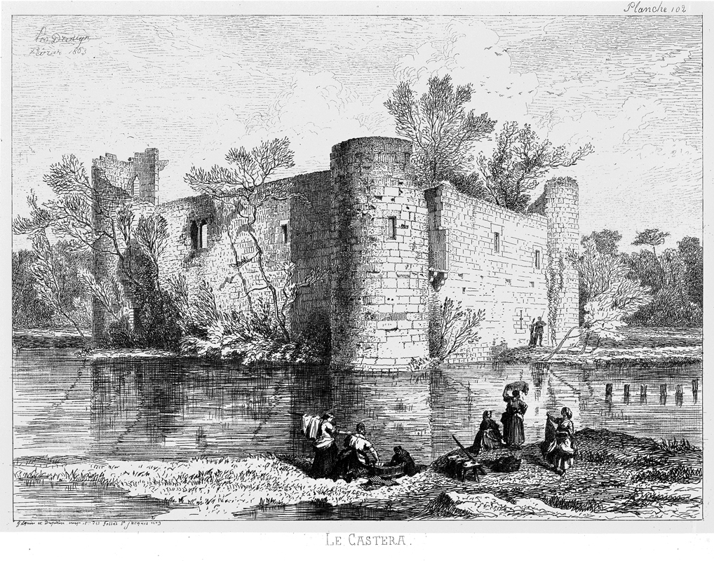 Castérà de Saint-Médard